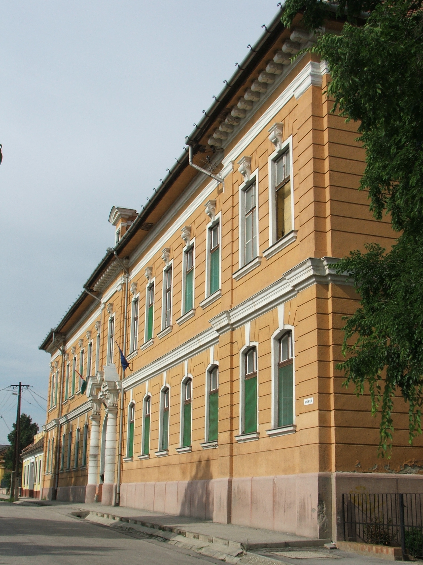 City Hospital in Heroes' Square